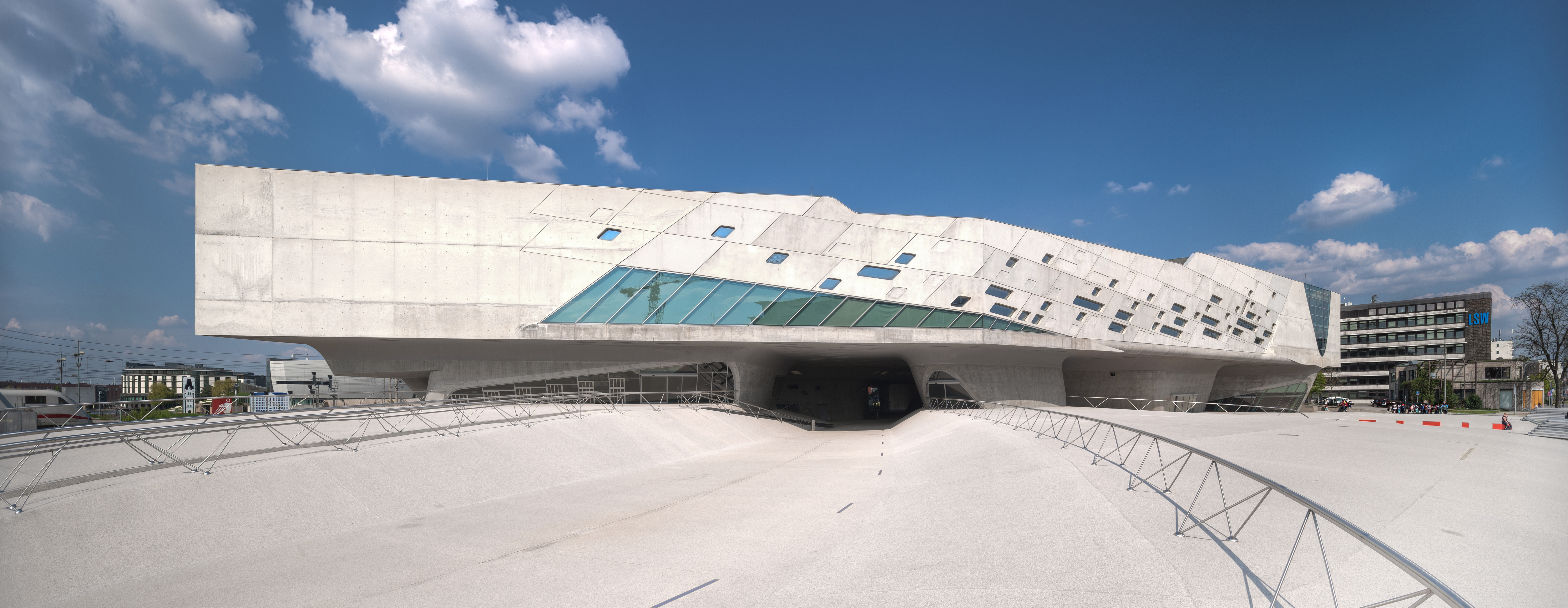 phæno Wolfsburg, Germany heading North